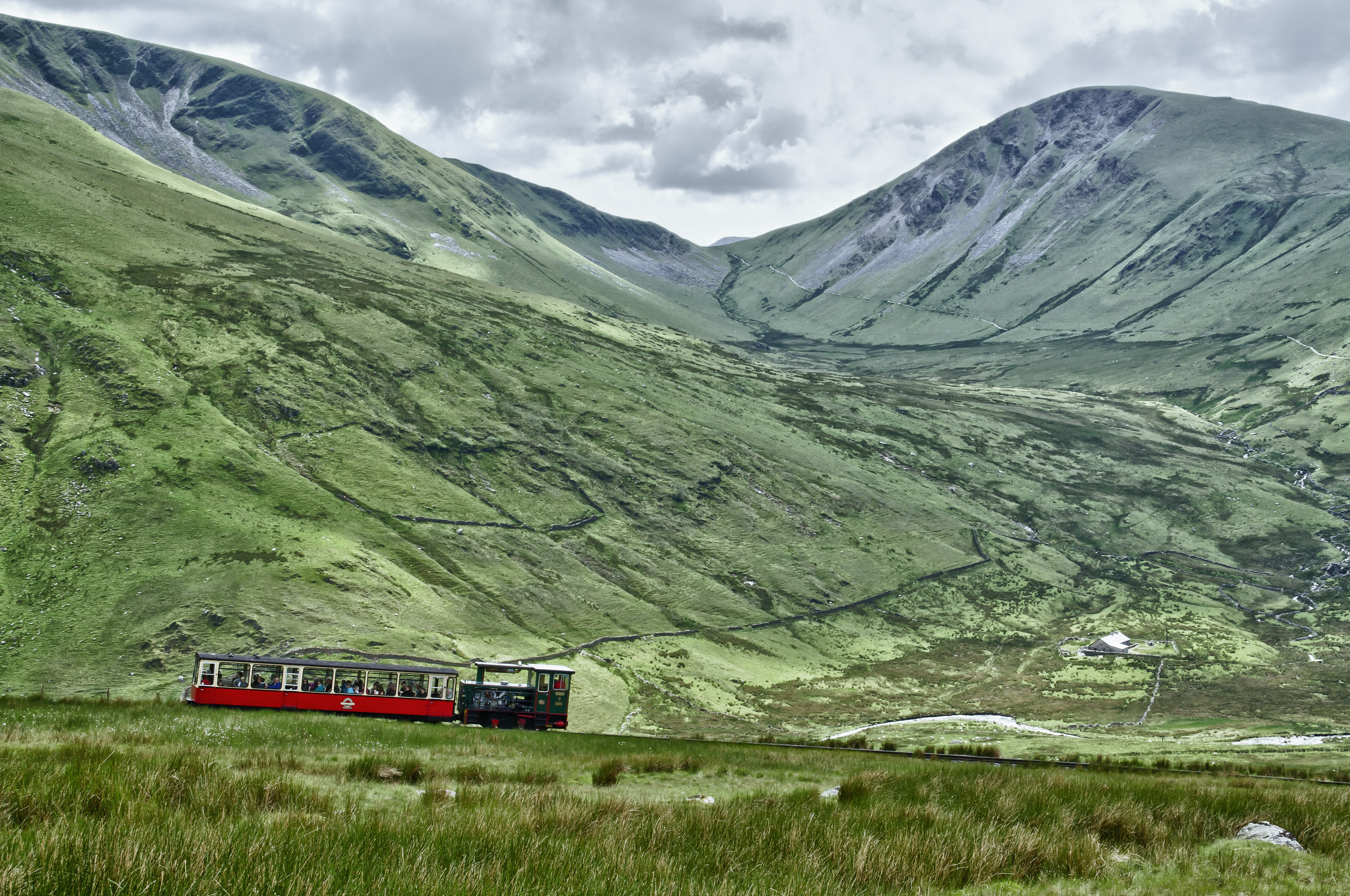 Snowdon Mountain Railway - Snowdon / Yr Wyddfa - Llanberis - North Wales - United Kingdom